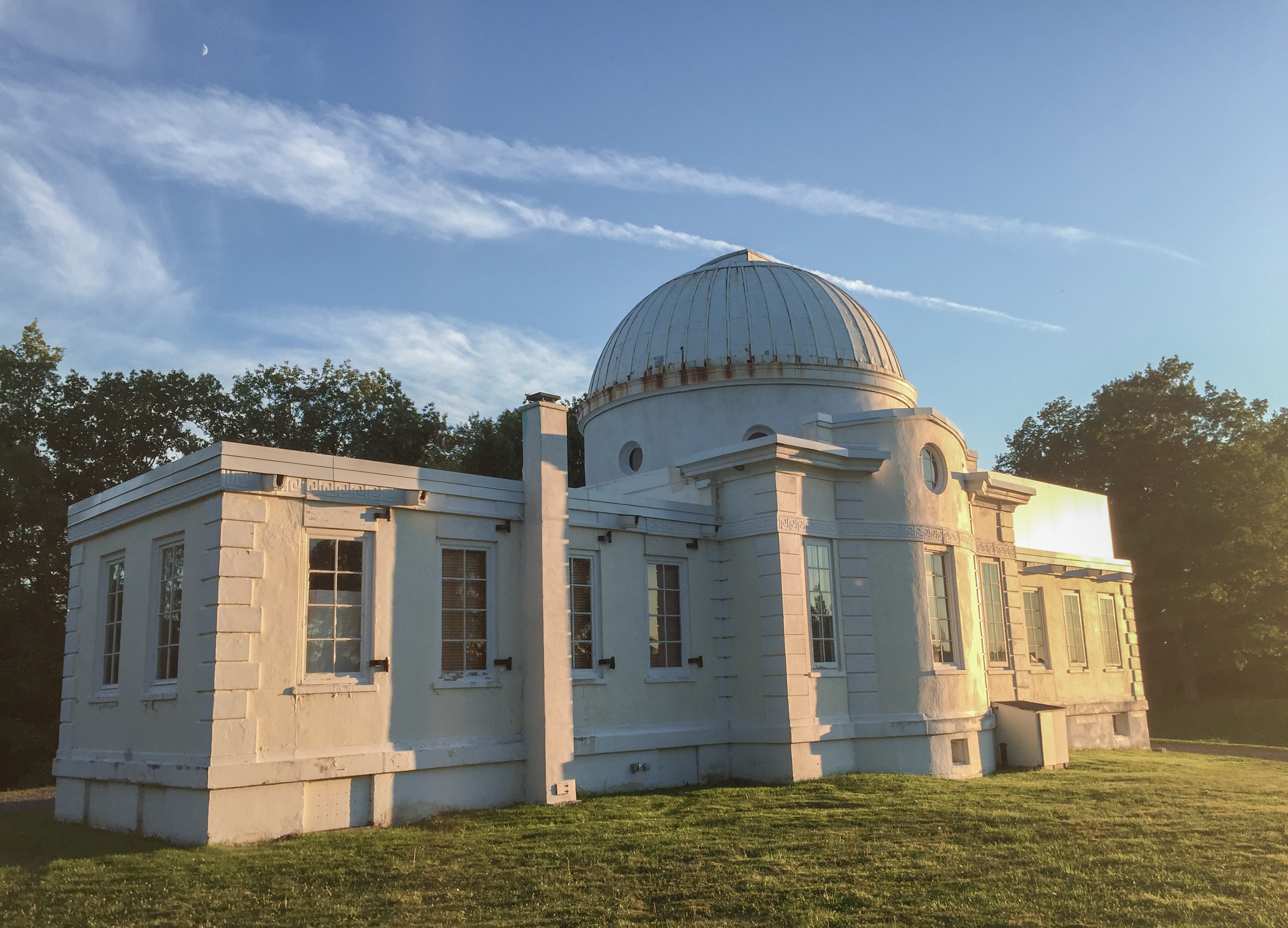 Cornell University's Fuertes Observatory, located on Cornell's North Campus. Built in 1917, the observatory houses the 12" Irving Porter Church Memorial Refractor and several other antique instruments used for timekeeping and geodesy.